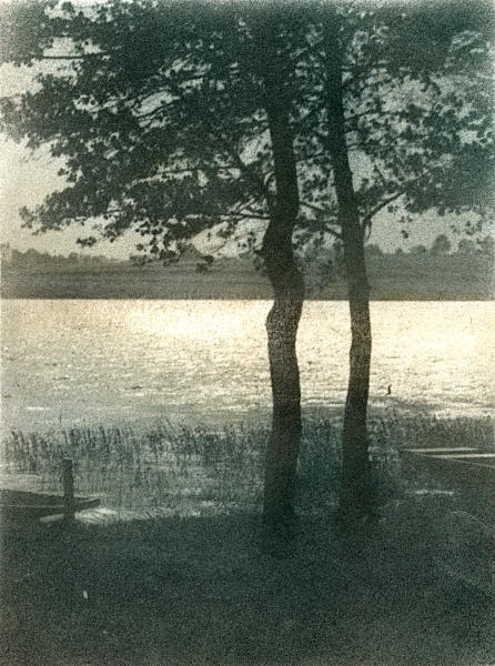 Photograph of lake Jordán, Tábor, Czech Republic, bromoil, 1920s Author: Josef Jindřich Šechtl Uploaded with approval of inheritors of the copyright